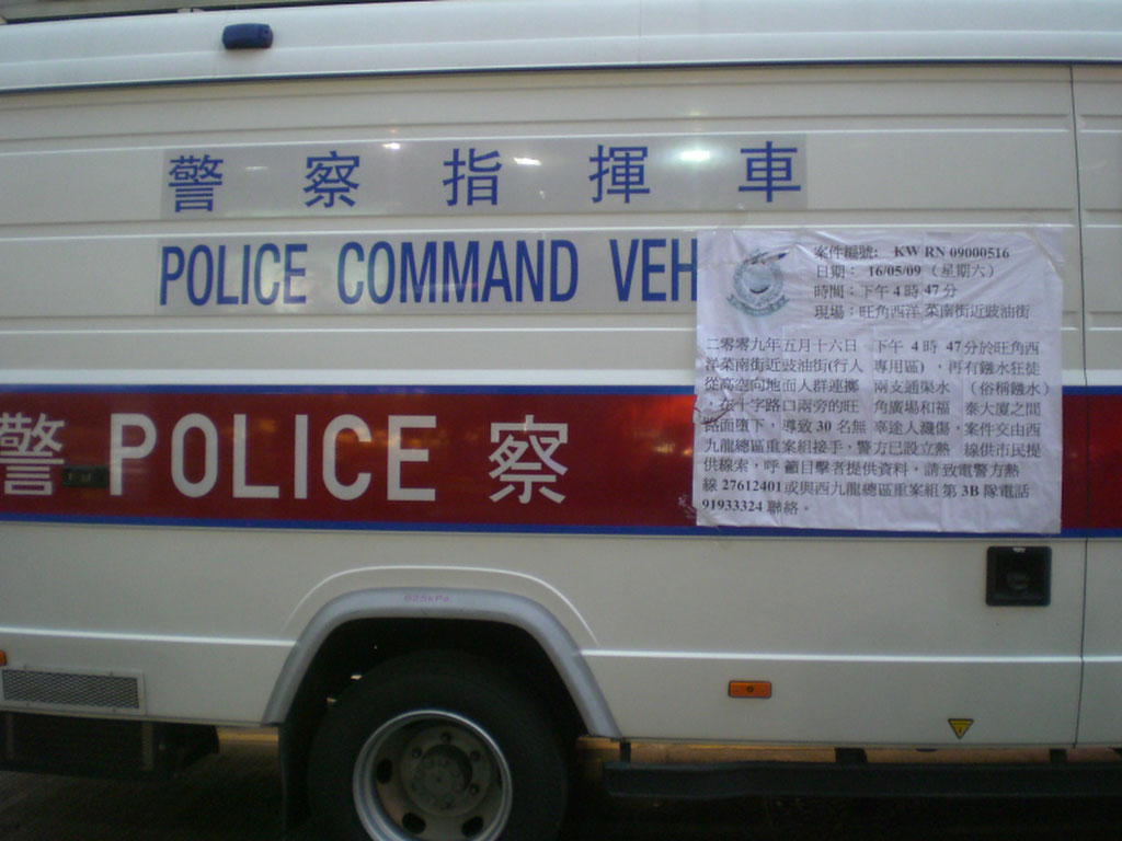 Notice is about someone dropping bottles with corrosive liquid from the building onto the street, leading to 30 people being burned. 旺角高空投擲腐蝕性液體傷人案